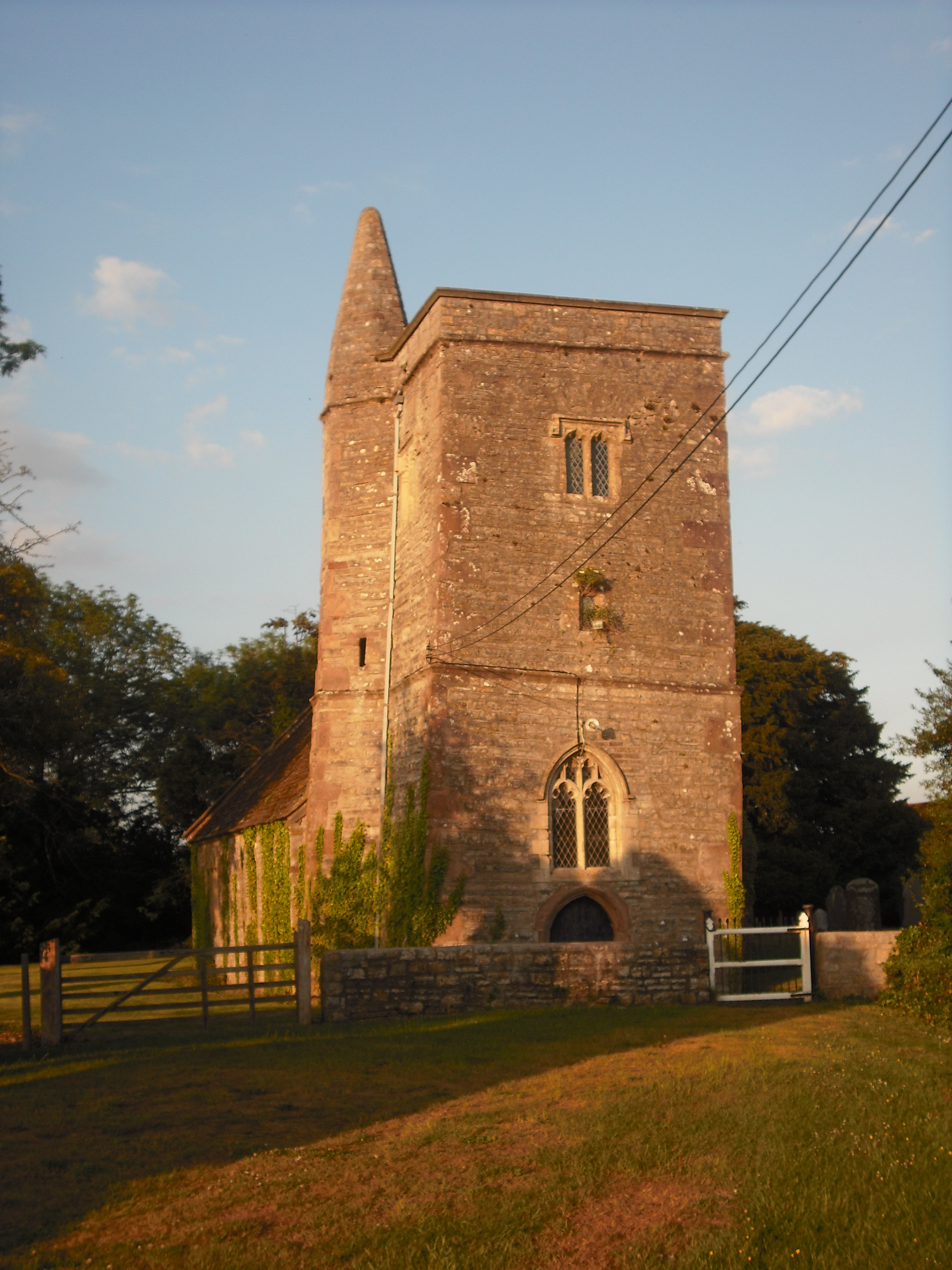 St. Mary's Church, Whitson, near Newport